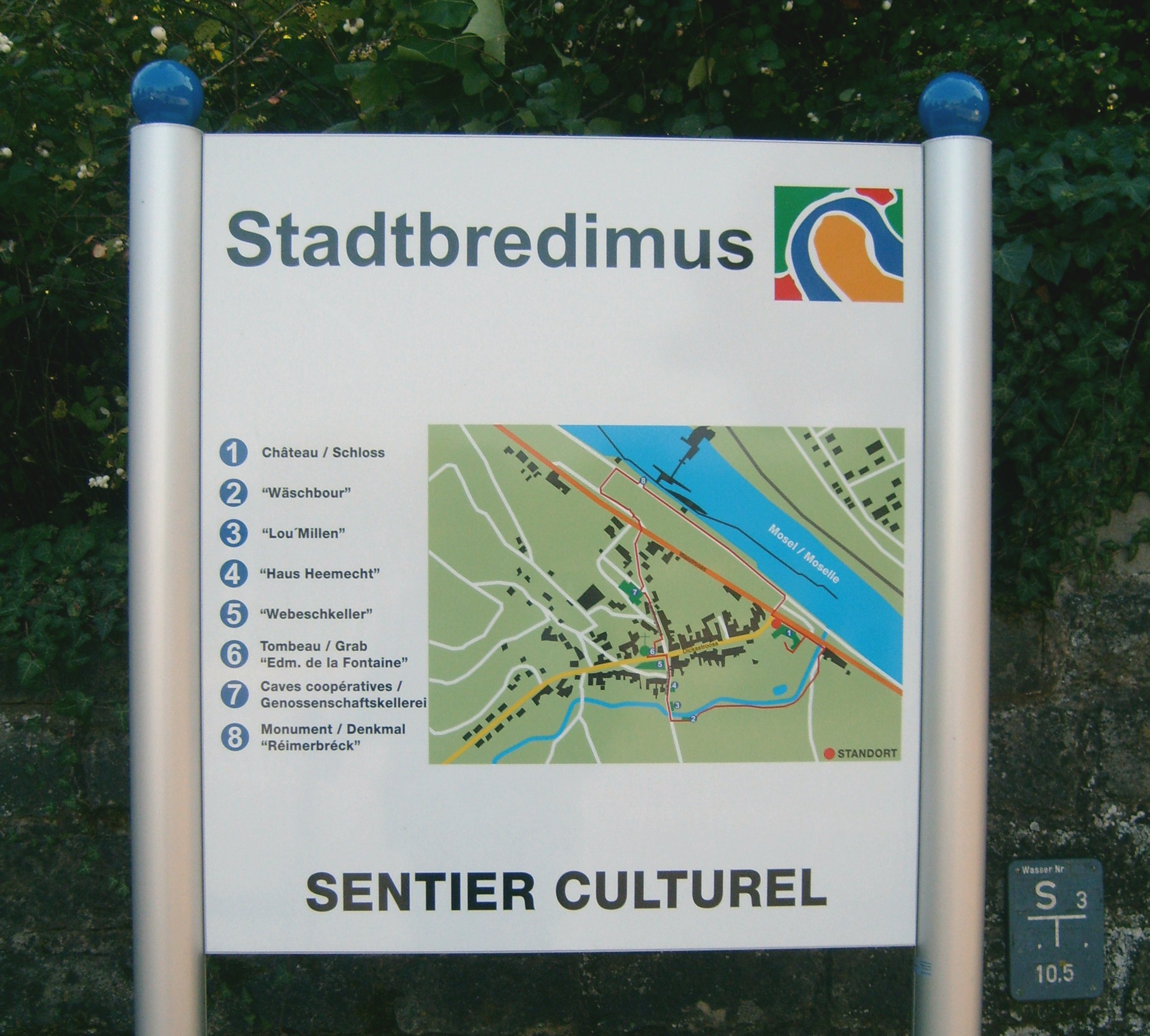 Sign of cultural path in Stadtbredimus, Luxembourg.